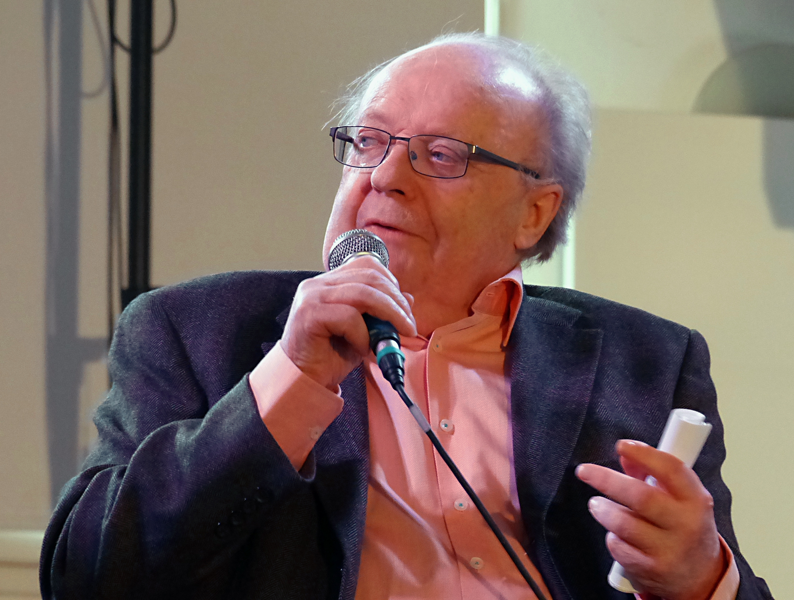 Josef Göhlen at the bumm Event, Munich 2015.